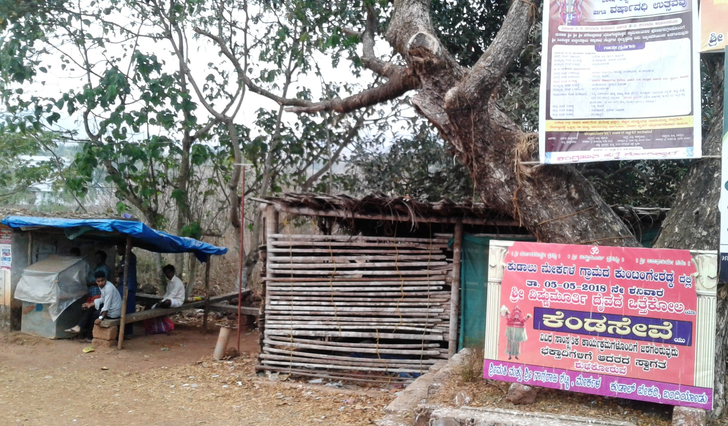 Kerala Province, India.